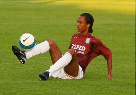 Delfouneso training at half-time during the pre-season friendly against Chasetown FC in August 2007. Villa went onto win the match 4-1.